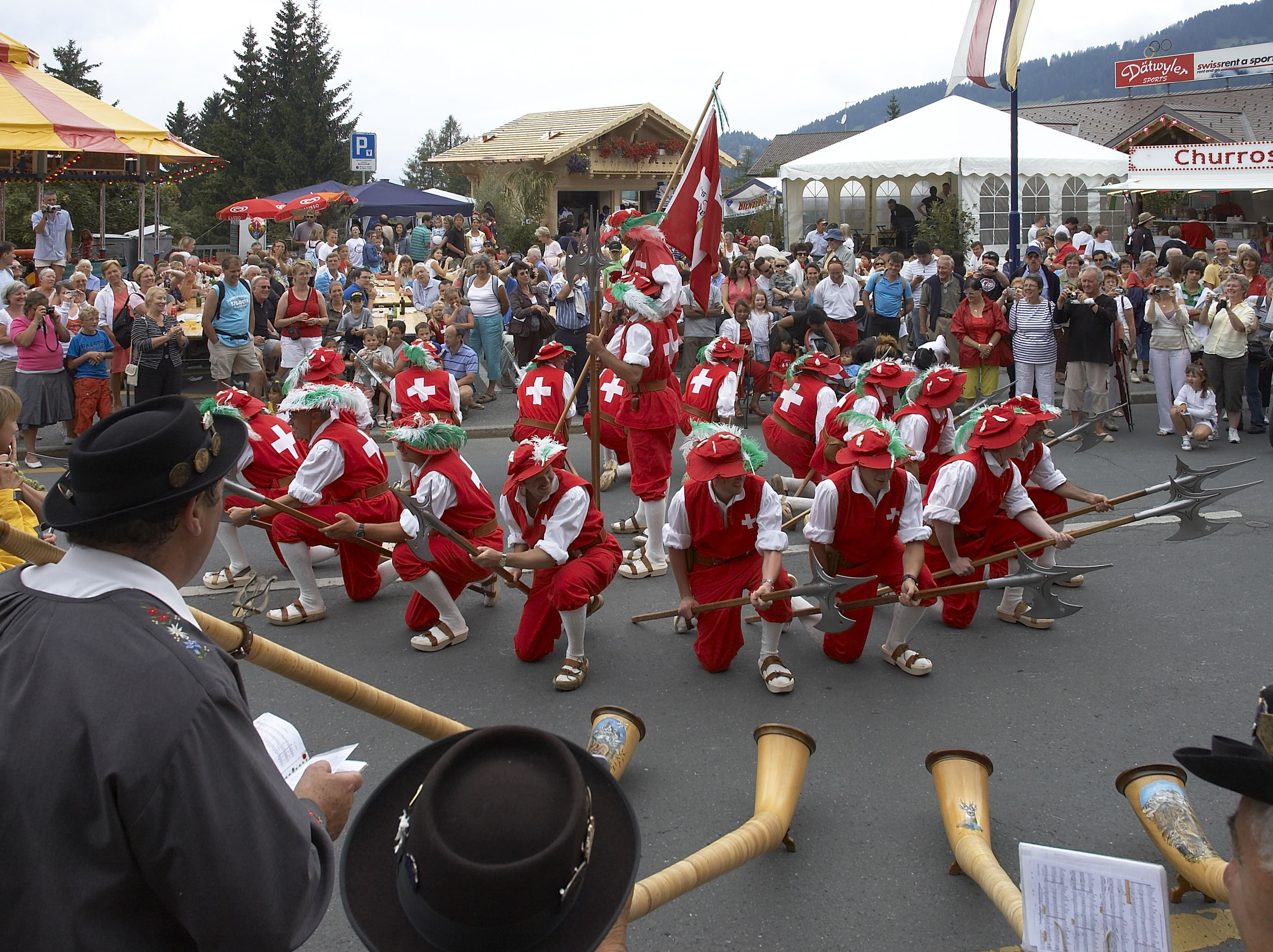 Festivities in Villars-sur-Ollon on August 1 the National Day of Switzerland